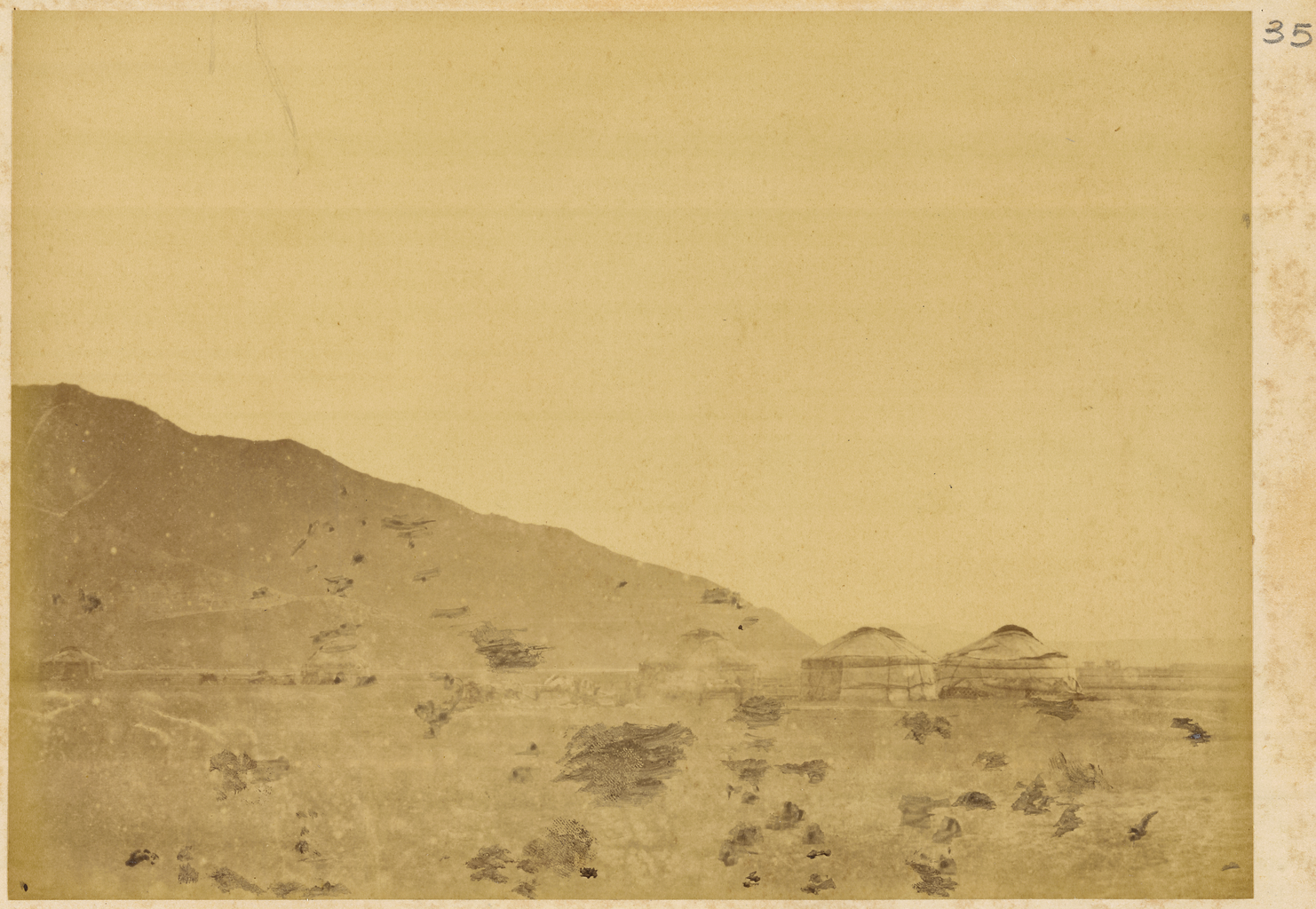 In 1874-75, the Russian government sent a research and trading mission to China to seek out new overland routes to the Chinese market, report on prospects for increased commerce and locations for consulates and factories, and gather information about the Dungan Revolt then raging in parts of western China. Led by Lieutenant Colonel Iulian A. Sosnovskii of the army General Staff, the nine-man mission included a topographer, Captain Matusovskii; a scientific officer, Dr. Pavel Iakovlevich Piasetskii; Chinese and Russian interpreters; three non-commissioned Cossack soldiers; and the mission photographer, Adolf Erazmovich Boiarskii. The mission proceeded from Saint Petersburg to Shanghai via Ulan Bator (Mongolia), Beijing, and Tianjin, and then followed a route along the Yangtze River, along the Great Silk Road through the Hami oasis, to Lake Zaysan, back to Russia. Boiarskii took some 200 photographs, which constitute a unique resource for the study of China in this period. Most of the photographs are included in this album, which later became part of the Thereza Christina Maria Collection assembled by Emperor Pedro II of Brazil and given by him to the National Library of Brazil. Memory of the World; Mountains; Tents; Yurts